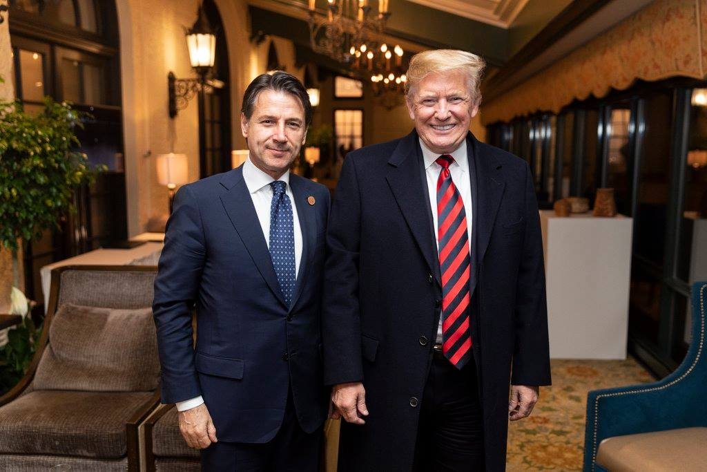 President Donald J. Trump and Prime Minister Giuseppe Conte of Italy prior to the G7 Cultural Event at the Fairmont Le Manoir Richelieu, in Charlevoix, Canada